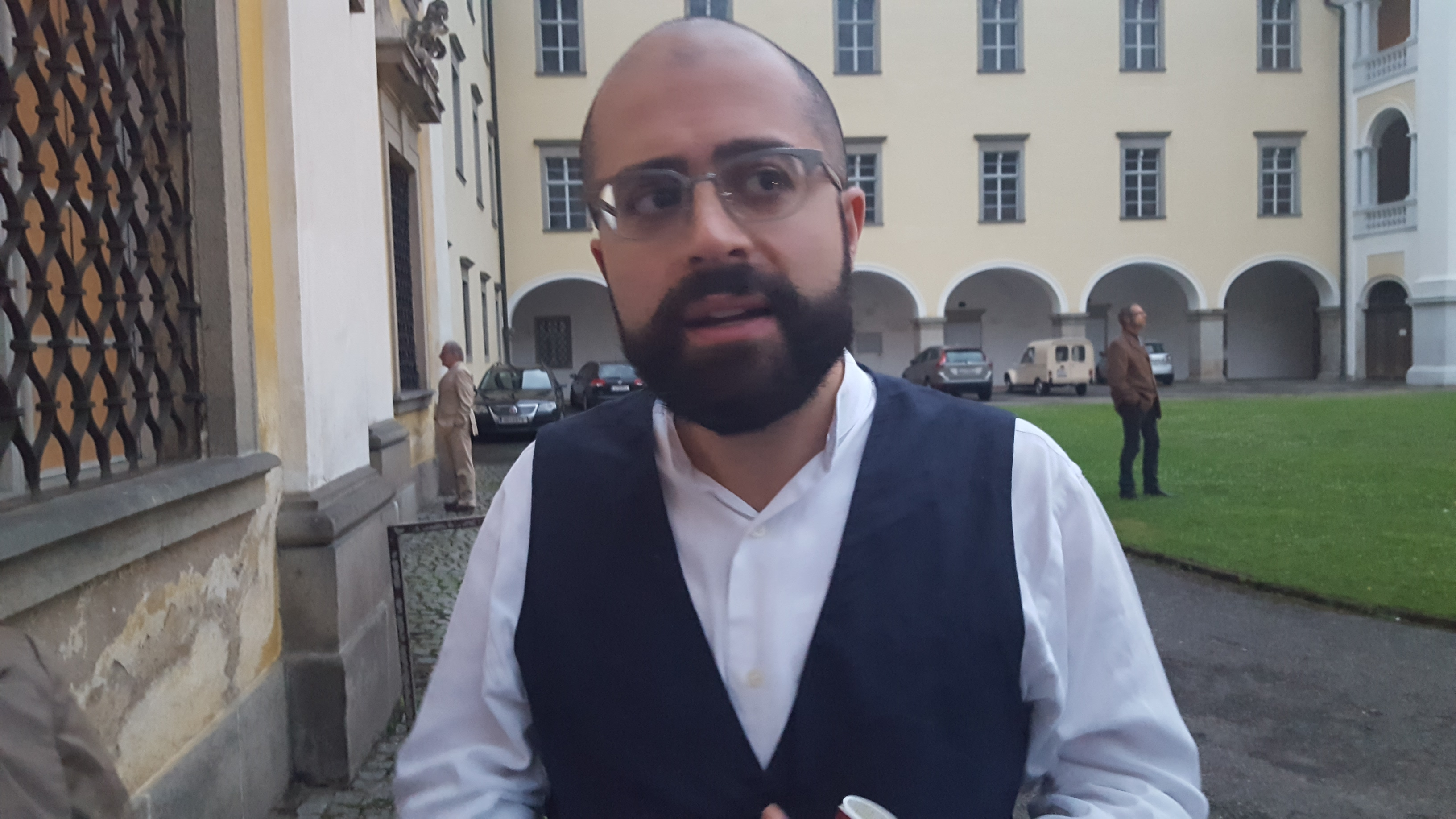 Mahan Esfahani an Iranian-American harpsichordist in St. Florian Monastery